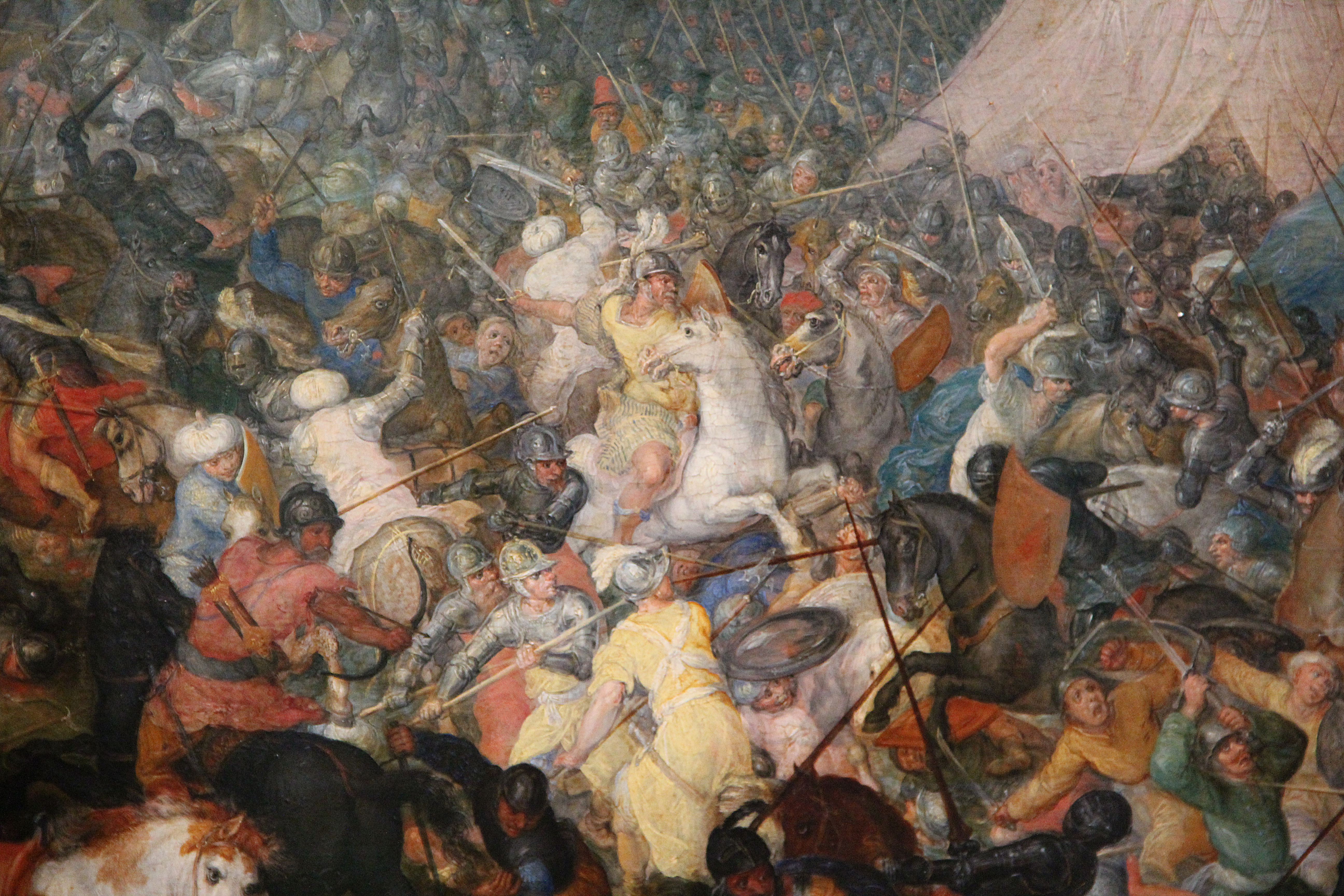 The Battle of Issus or Arbela (detail)